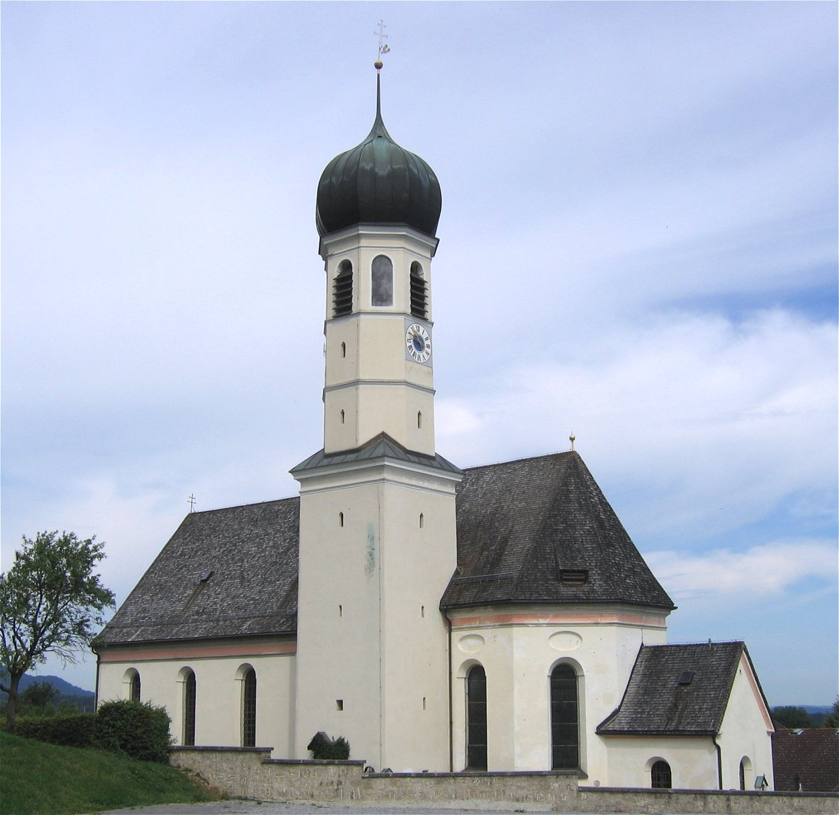 Litzldorf, view of St Michael's Parish Church from south-east.